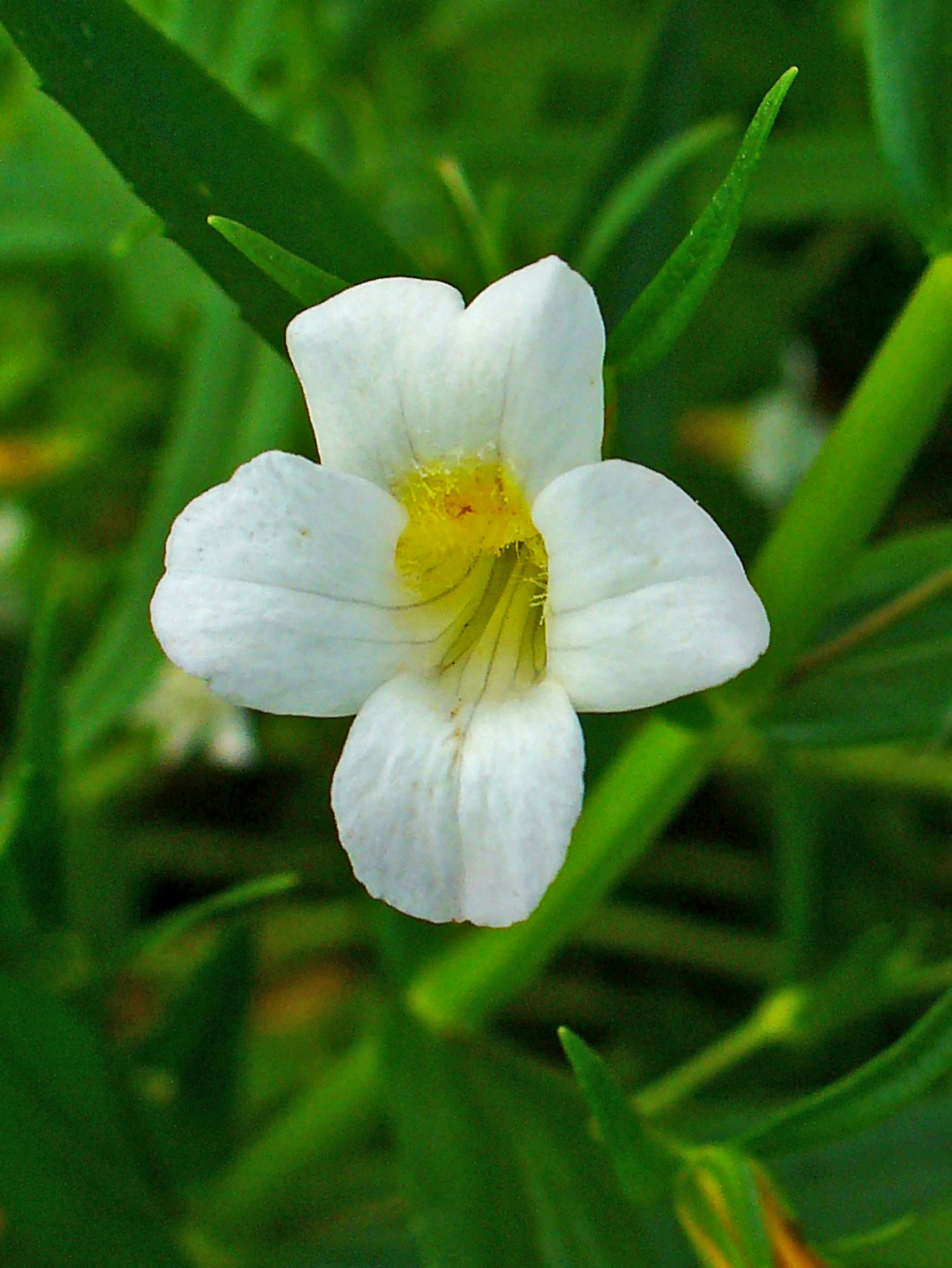 Gratiola officinalis, Plantaginaceae, Common Hedgehyssop, flower. The fresh, aerial parts collected at bloom are used in homeopathy as remedy: Gratiola (Grat.)